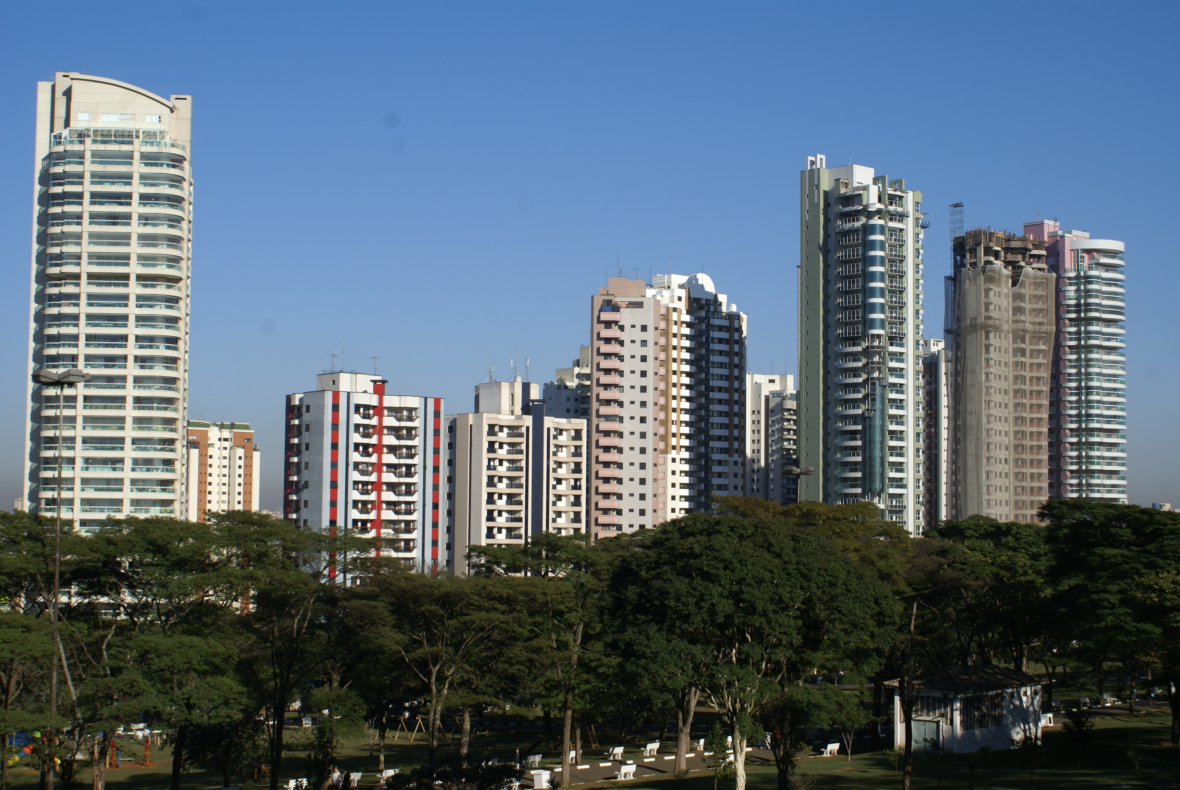 Skyline of Jardim Anália Franco, the neighborhood noblest of the Eastern Zone of Sao Paulo City, Brazil.